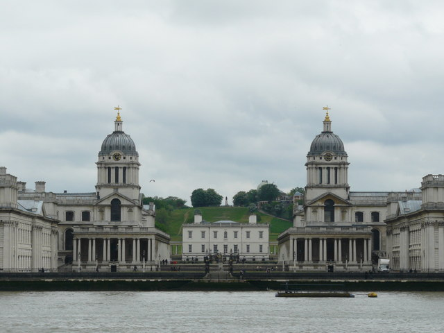 Old Royal Naval College and Queen's House Photographed from the Isle of Dogs. The Old Royal Naval College is in the foreground, Queen's House in the centre of picture and, on the skyline just to the right of centre, is the dome of the Old Royal Observatory.